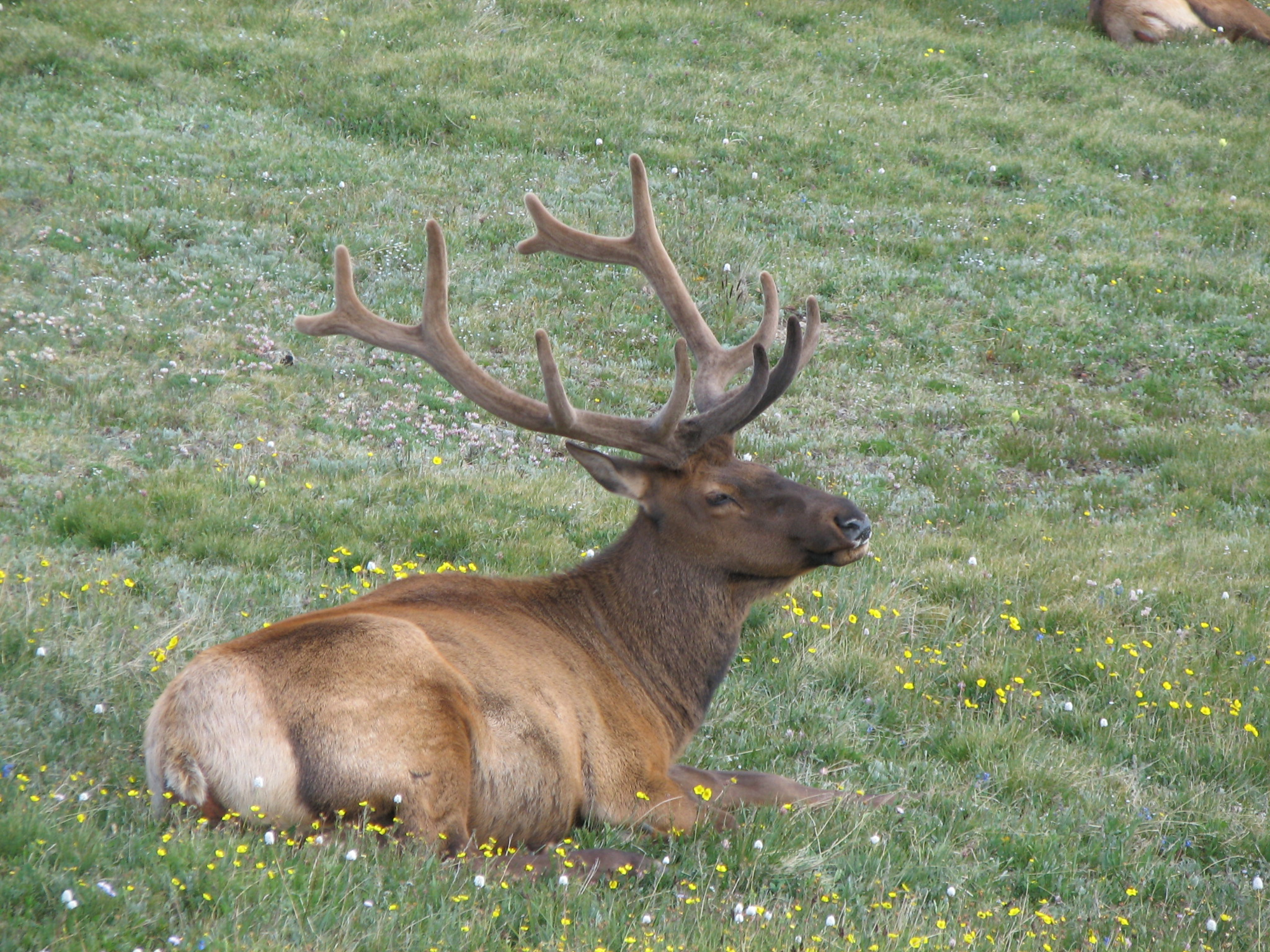 Cervus canadensis (Erxleben, 1777) - male North American elk in Colorado, USA (boreal summer 2009). In the summertime, male elk (bulls) herd together while grazing in the mountains. They average about 700 pounds in size, and may reach 1,000 pounds. Elk horns may have a span up to 5 feet long. Classification: Animalia, Chordata, Vertebrata, Mammalia, Artiodactyla, Cervidae Locality: Trail Ridge, Rocky Mountains National Park, northern Colorado, USA